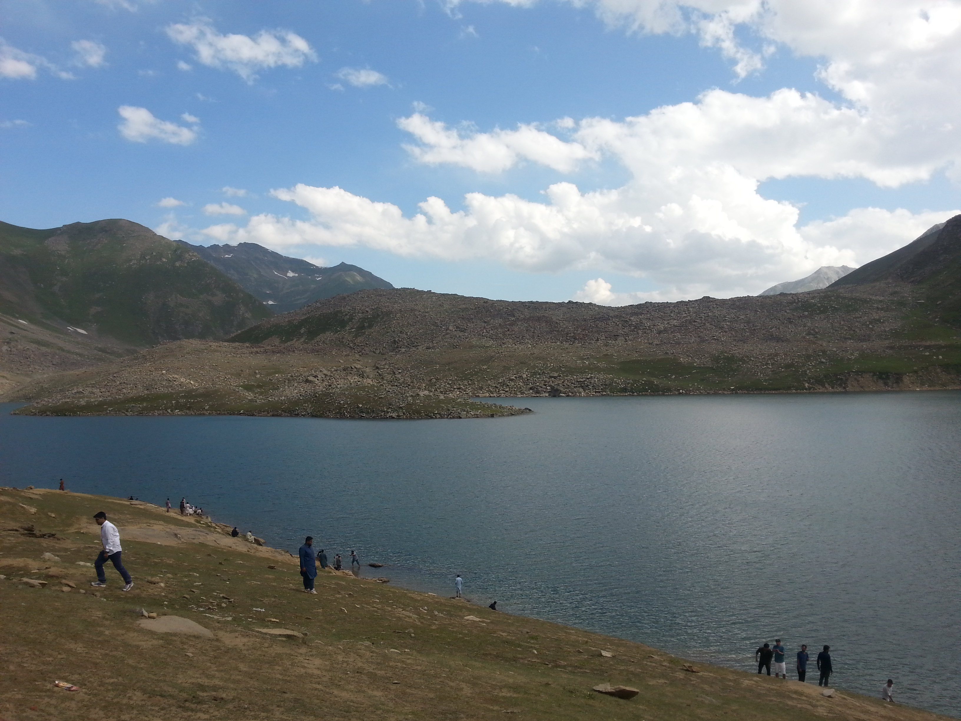 Lulusar lake Naran, Khyber Pakhtunkhwa, Pakistan